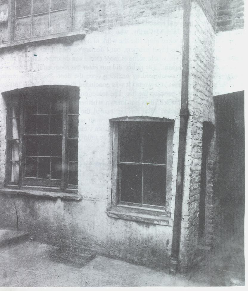 Whitechapel, Dorset Street, Miller's Court No.13. Photograph taken the day of the murder of Mary Jane Kelly of the outside of Mary Kelly's room [1].